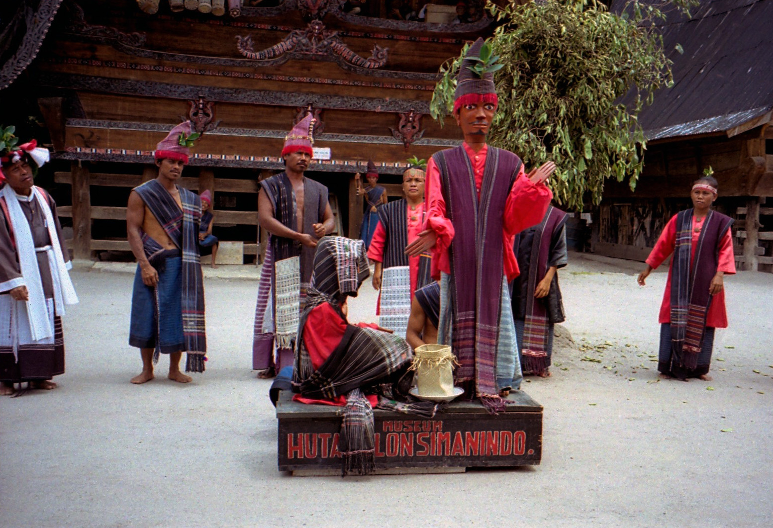 Life-size puppets of Huta Bolon Simanindo Museum in Simanindo, Samosir Island, North Sumatra, Indonesia. (Puppetry is common in Indonesian culture.)